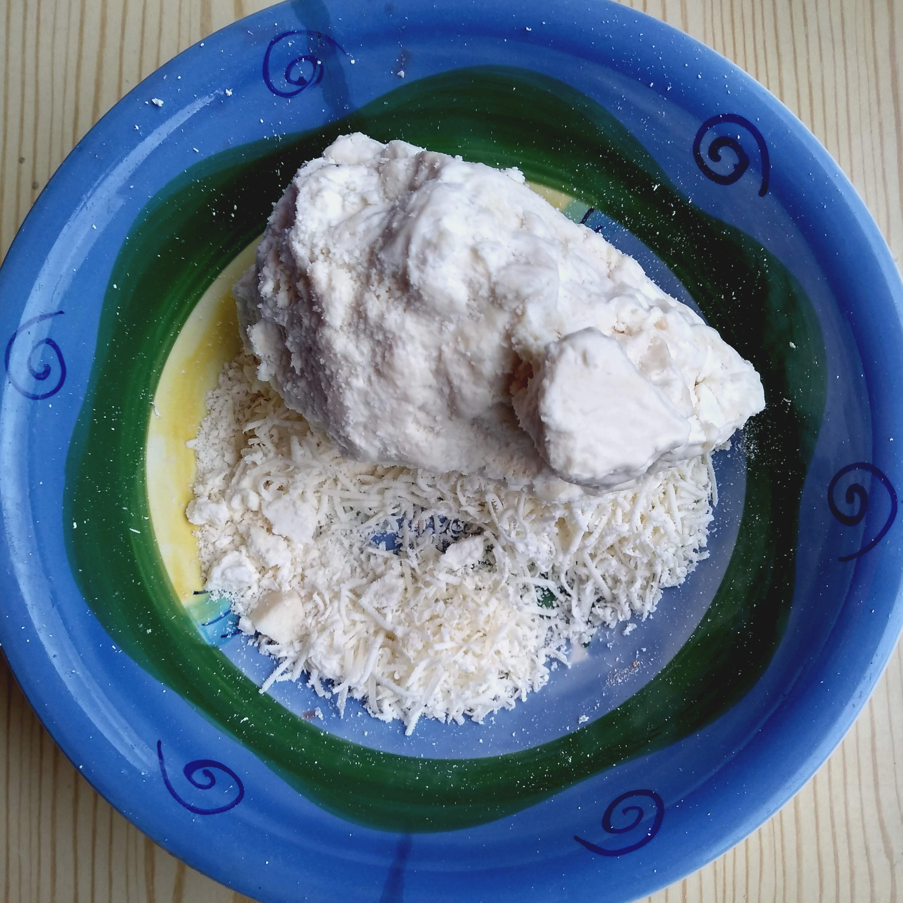 Prljo, Montenegrin autochthonous non-greasy hard cheese - nugget and grated